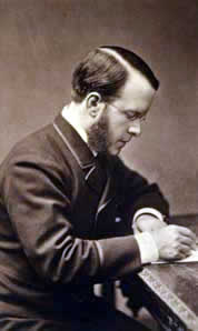 Photograph c.1868